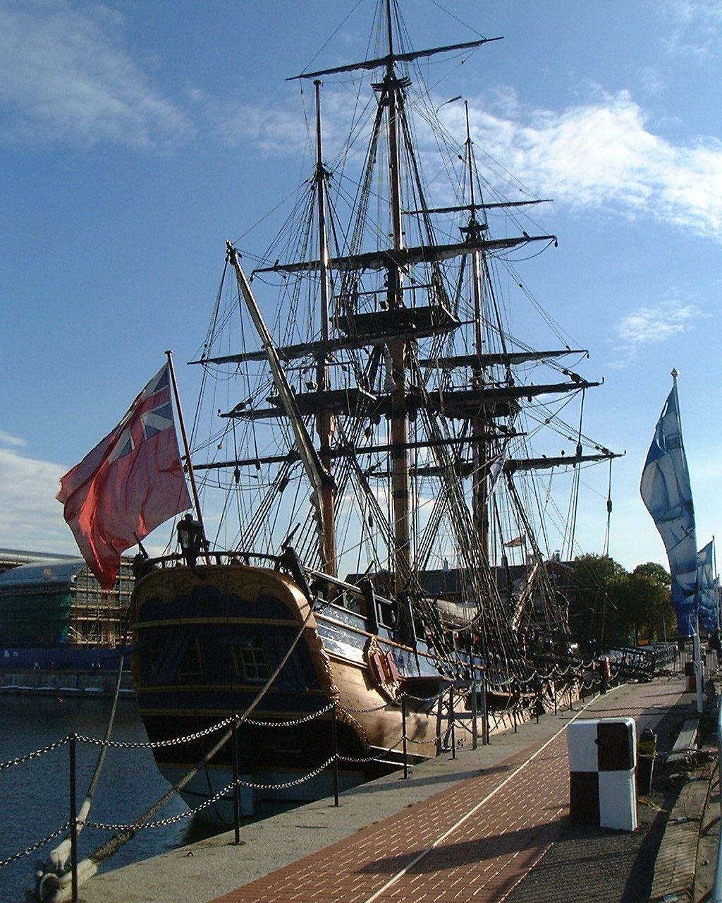 HM Bark Endeavour visited Chatham Dockyard, No. 2 basin, in 2003. Her mooring location is give below. The starboard stern and rigging showing 1768 Red Ensign.